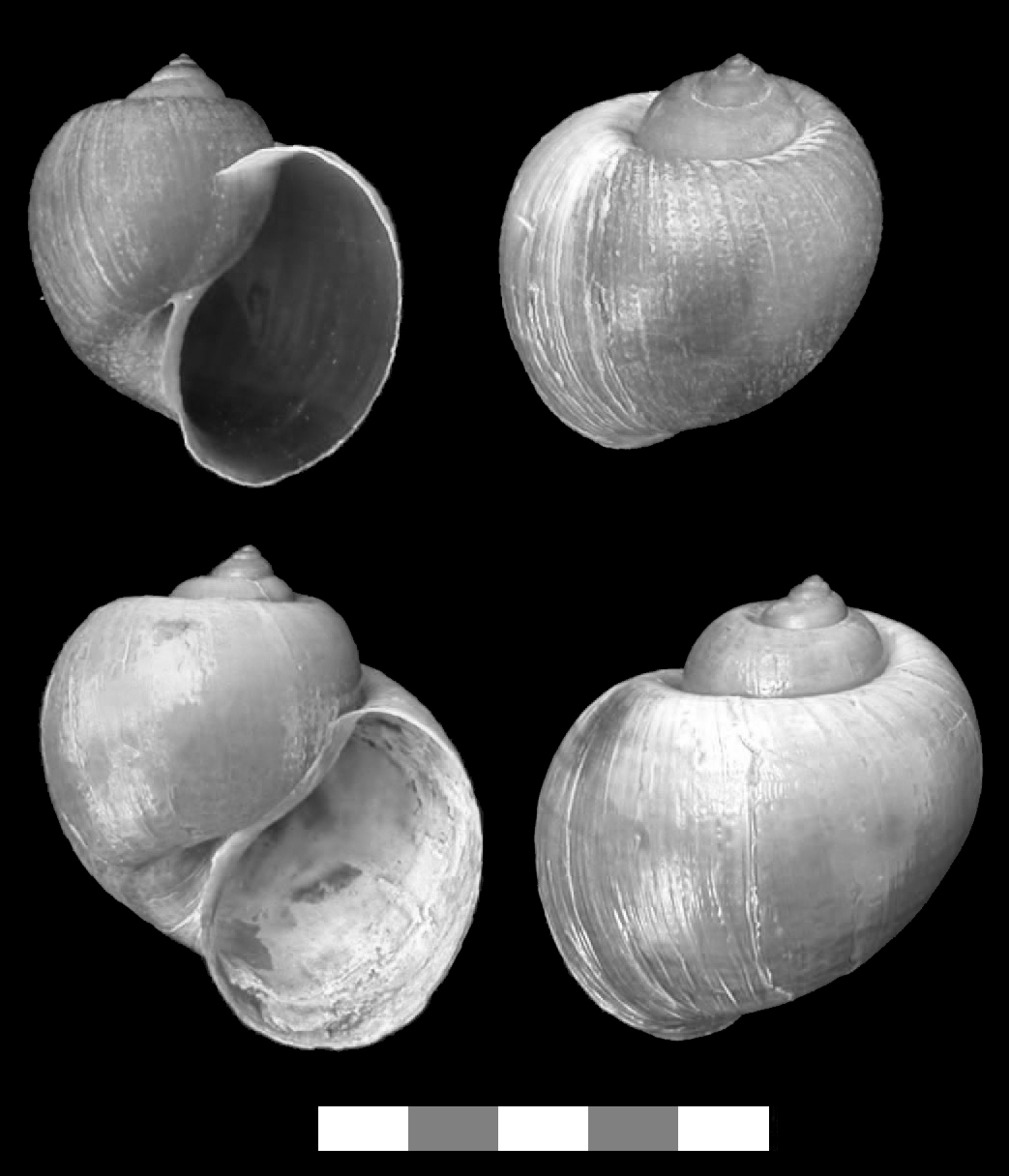 photo of shells of Pomacea canaliculata from Mecca, California. Scale Bar: 5 cm.